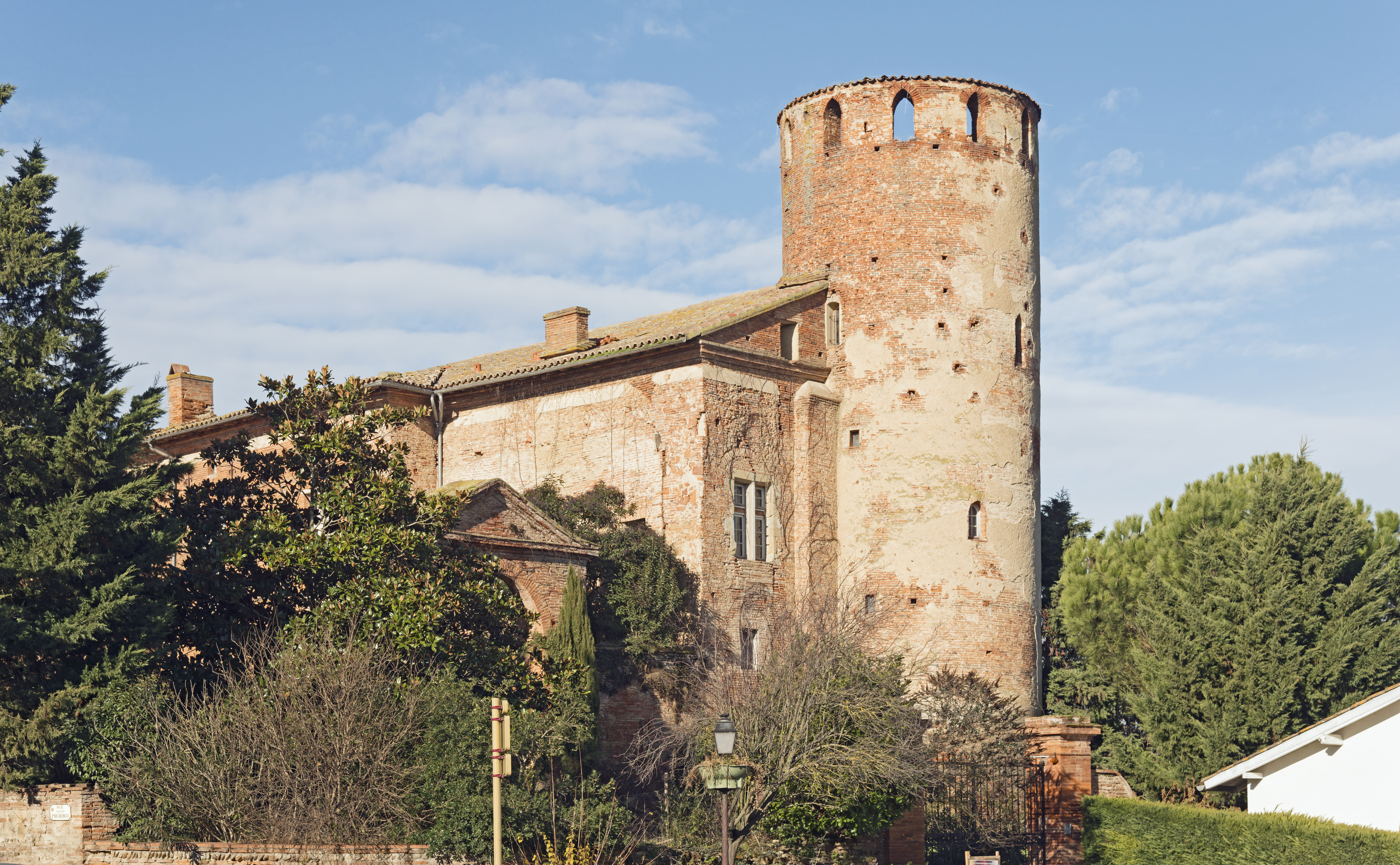 Launac, Haute-Garonne, France. The tower of the thirteenth century.